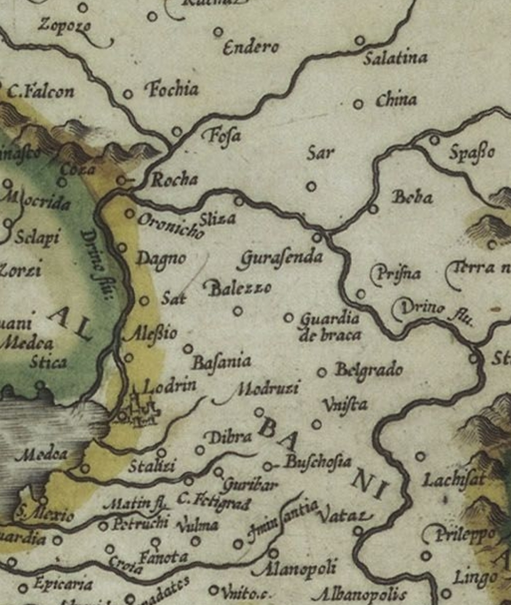 Old map of Albania by Henricus Hondius in University Library Berne